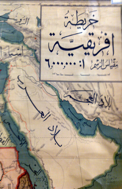 The map of the Persian Empire in 1908 Egypt library alazhar university